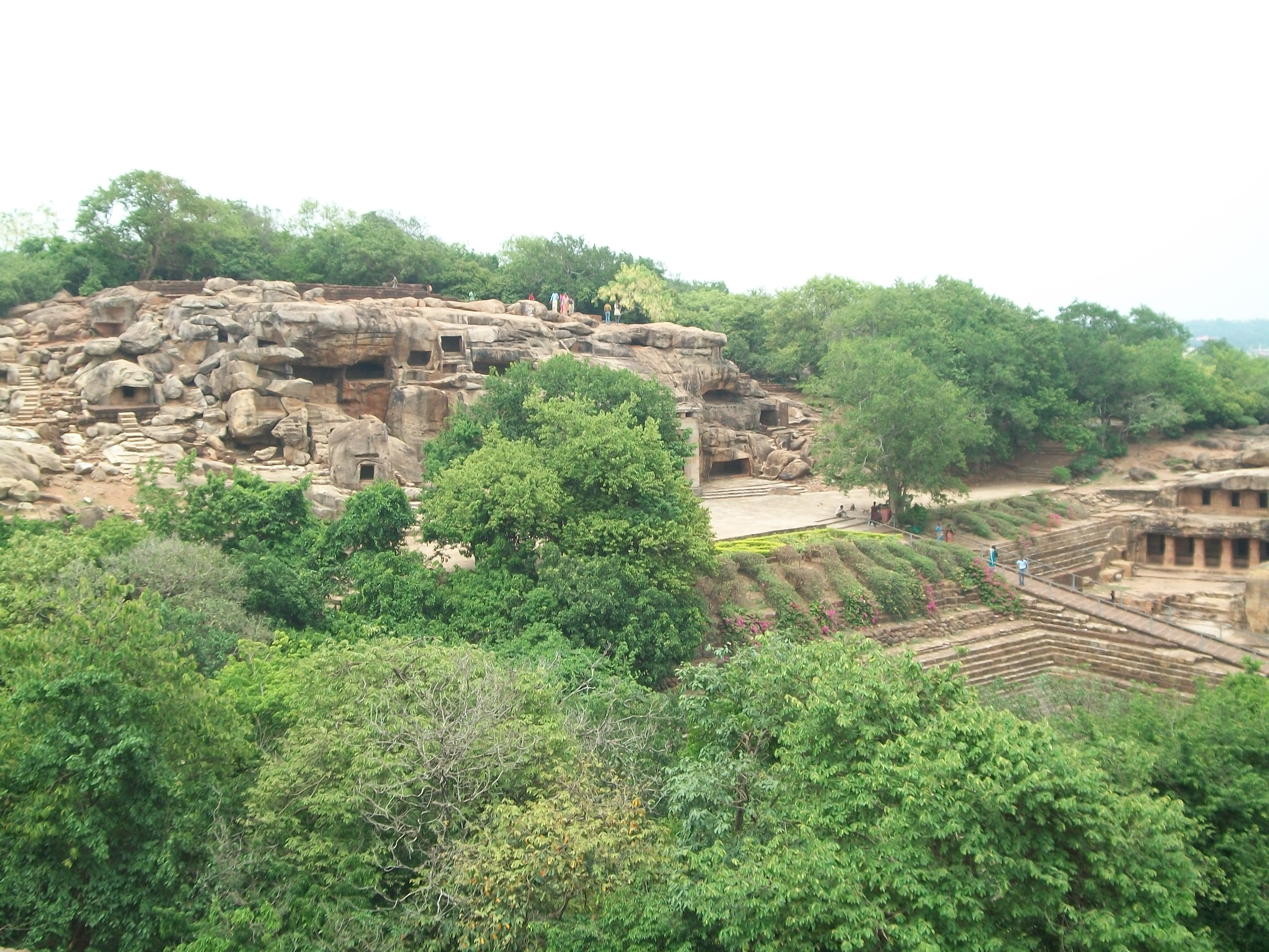 greenery and nature reflecting originality of odisha.